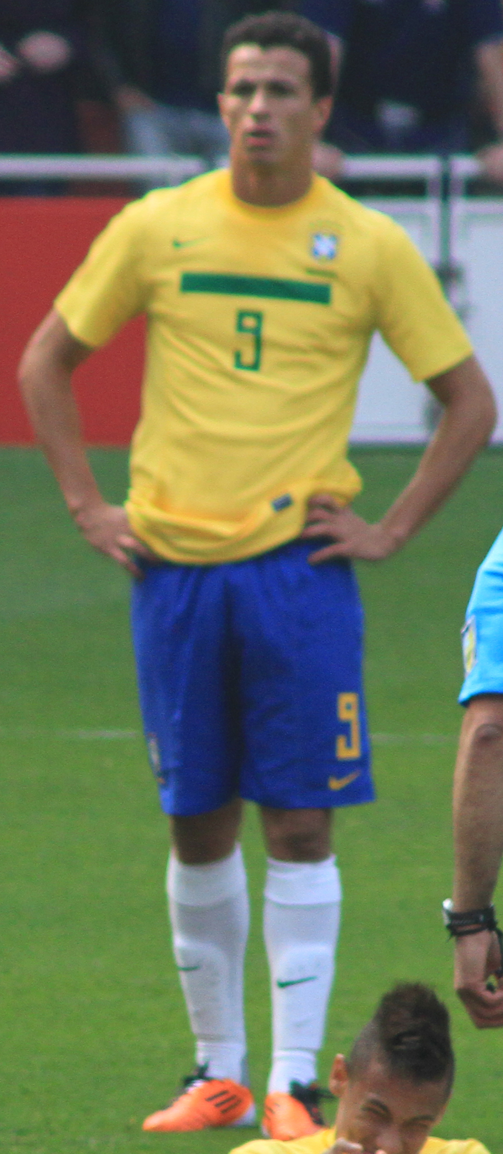 Neymar on the deck 1